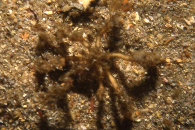 A photograph of the sea spider, Tanystylum brevipes taken off Cape Town in 20m of water using a Nikonos V camera